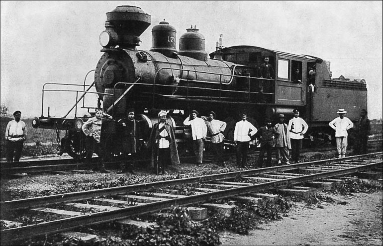 X class locomotive number 176 of the Chinese Eastern Railway around the turn of the century.